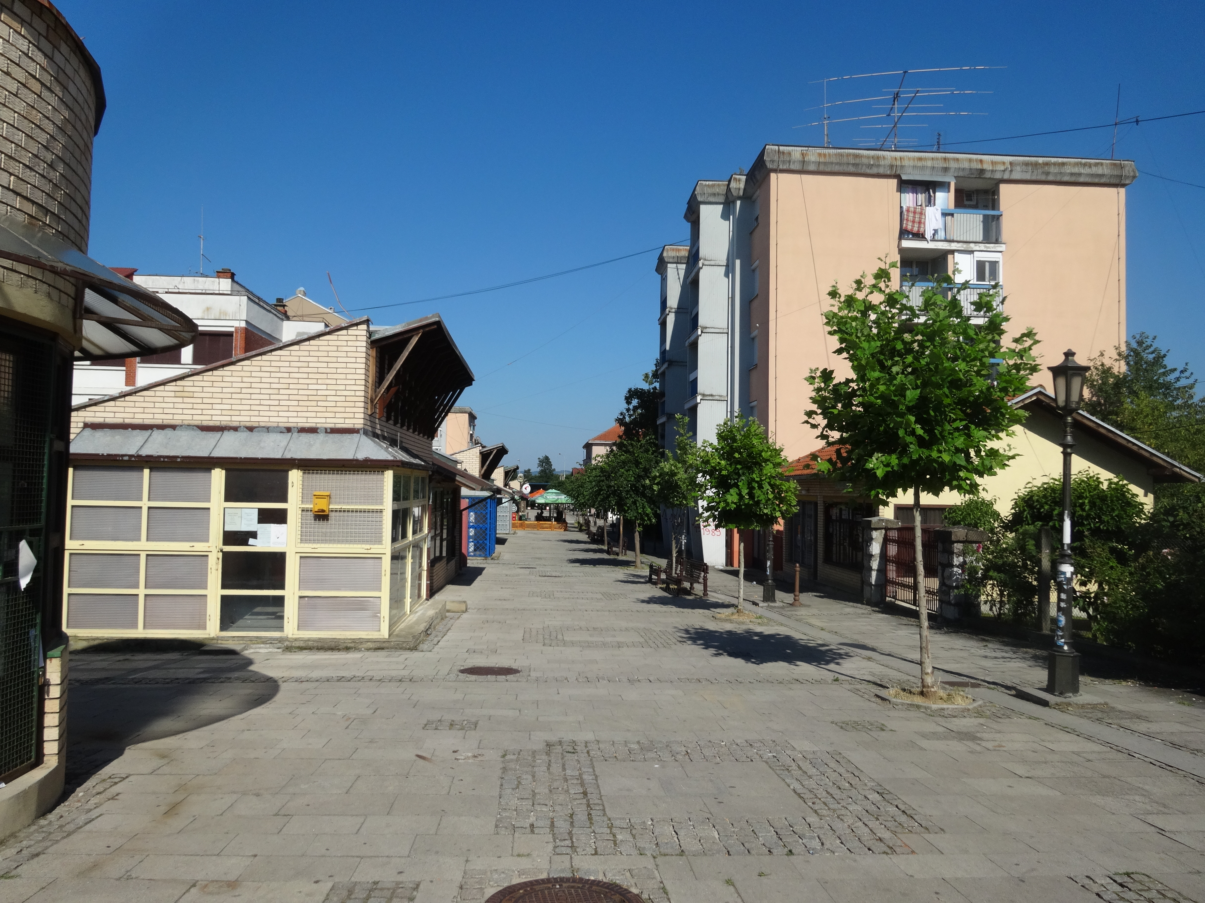 Lajkovac, Isidora Sekulić Street